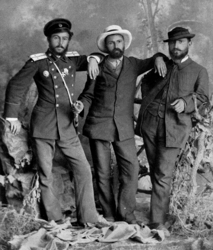 K. Panica, Zahari Stoyanov, D. Rizov